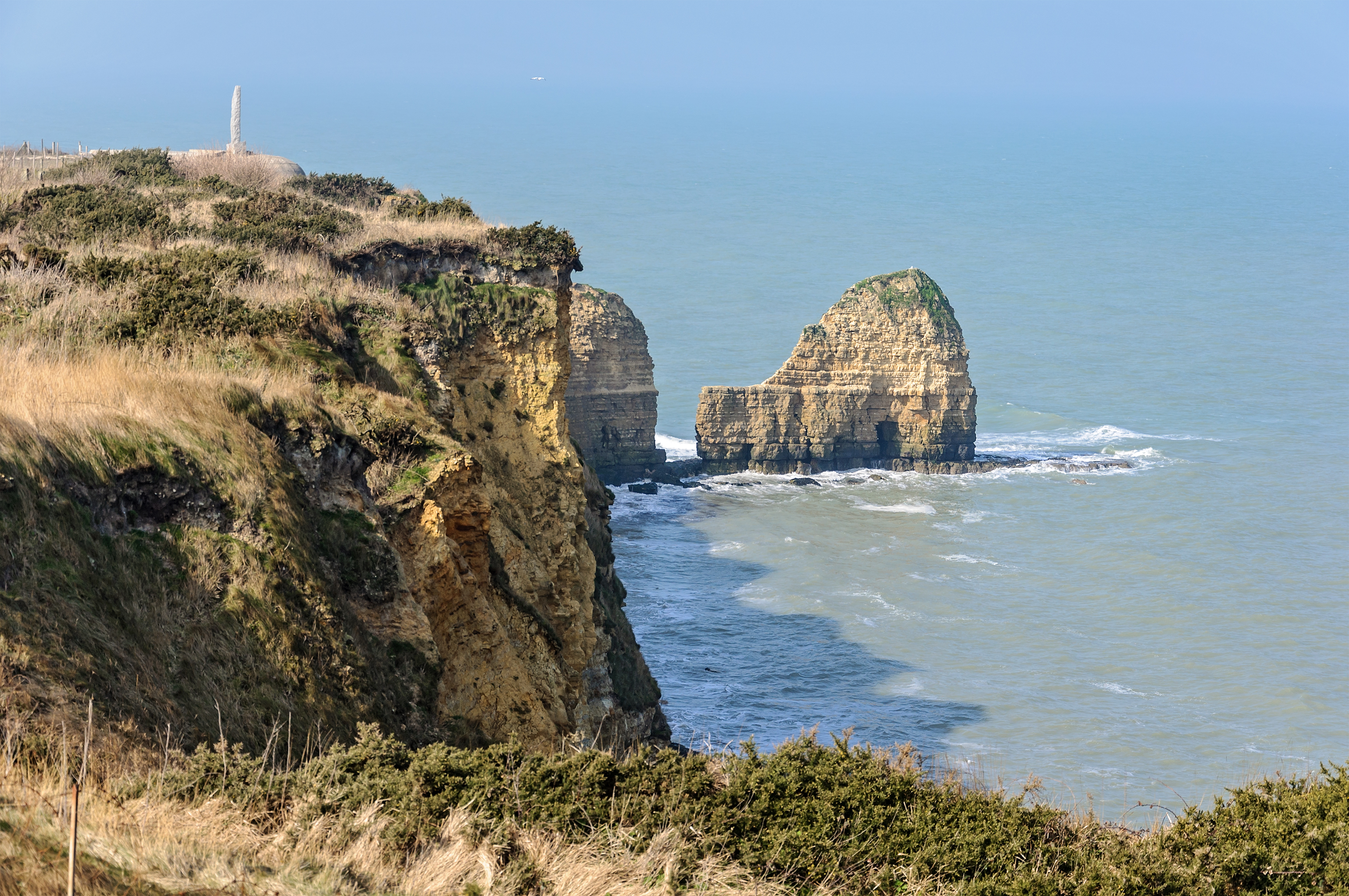 Pointe du Hoc, one of the D-Day battlefields during Operation Overlord in World War II (Calvados, Normandie, France)